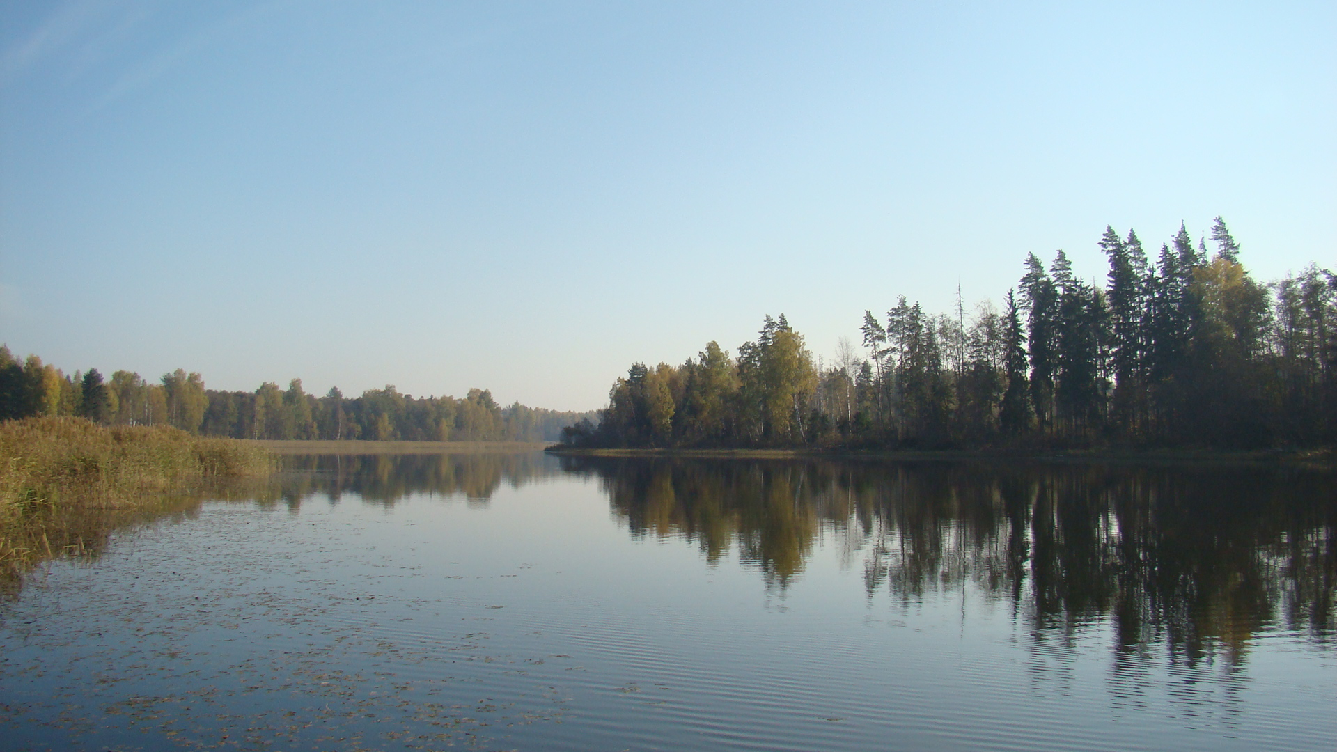 Slīpju lake in Latvia, near the regional road lv:P25, connecting lv:Smiltene and lv:Strenči